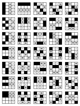 Original description by Steven H. Cullinane: Square model of Fano 3-space This square model of PG(3,2), the projective 3-space over the 2-element Galois field GF(2), has its origin in the Cullinane diamond theorem. The black squares in each picture depict a two-dimensional vector subspace (plane) within the vector 4-space over GF(2). A vector 4-space over GF(2) becomes a projective 3-space when the origin of the space is deleted. In the resulting projective 3-space, vector-space planes through the origin become projective lines, with 3 rather than 4 points because the origin has been deleted. In the above image, the origin (top left subsquare) is retained, for the sake of visual symmetry. For details of the underlying geometry, see (for instance) Geometry and Symmetry by Paul B. Yale. Original caption: The square model of PG(3,2), the Fano 3-space. Sets of black squares represent the 35 lines. (This arrangement of the 35 lines illustrates the Kirkman schoolgirls problem.)